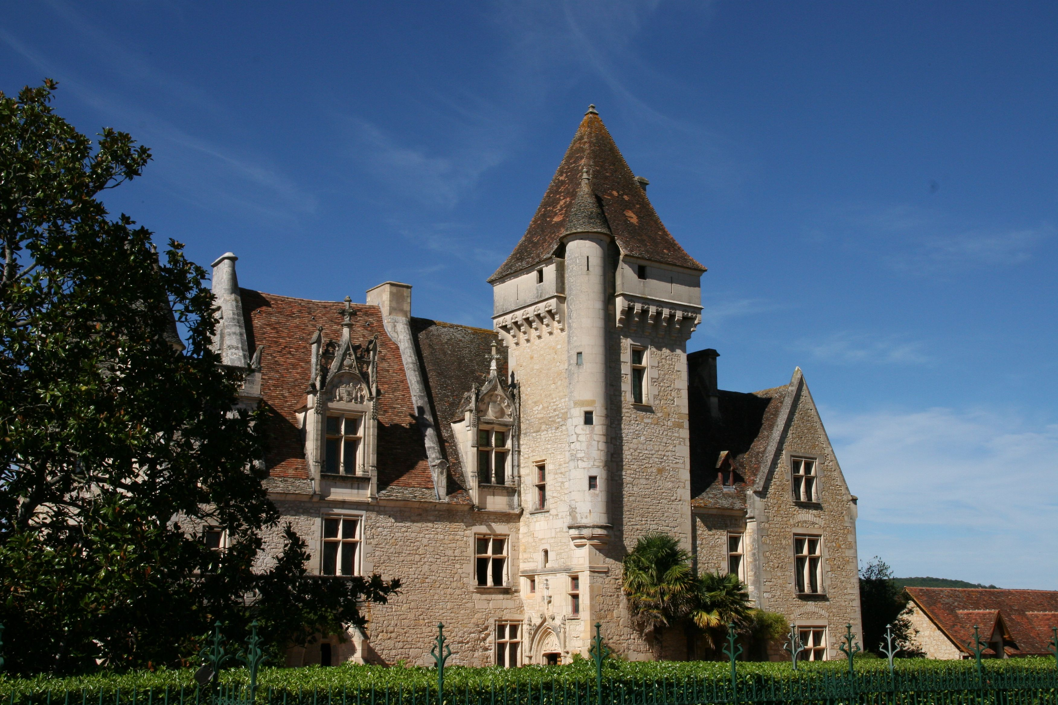 Chateau des Milandes